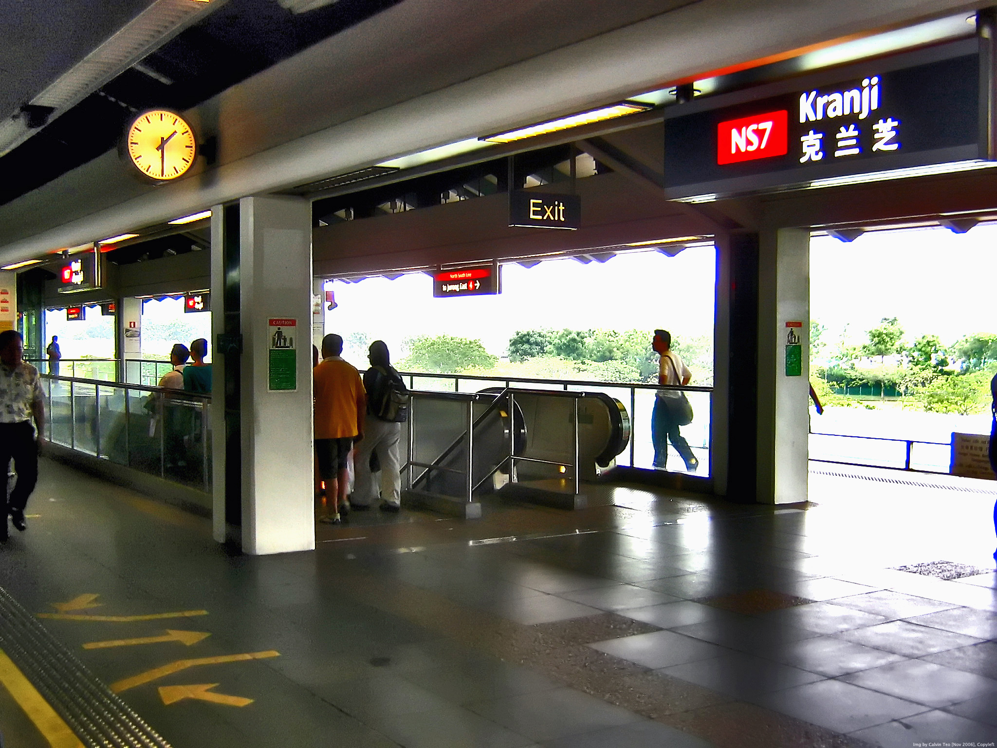 Kranji MRT Station, Woodlands, Singapore.